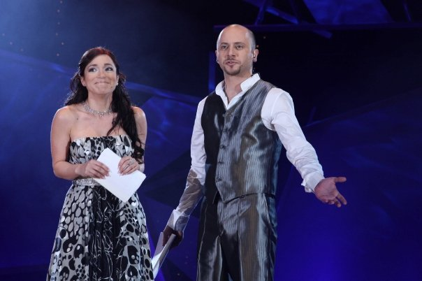 Pablo hosting Malta Song for Europe 2009